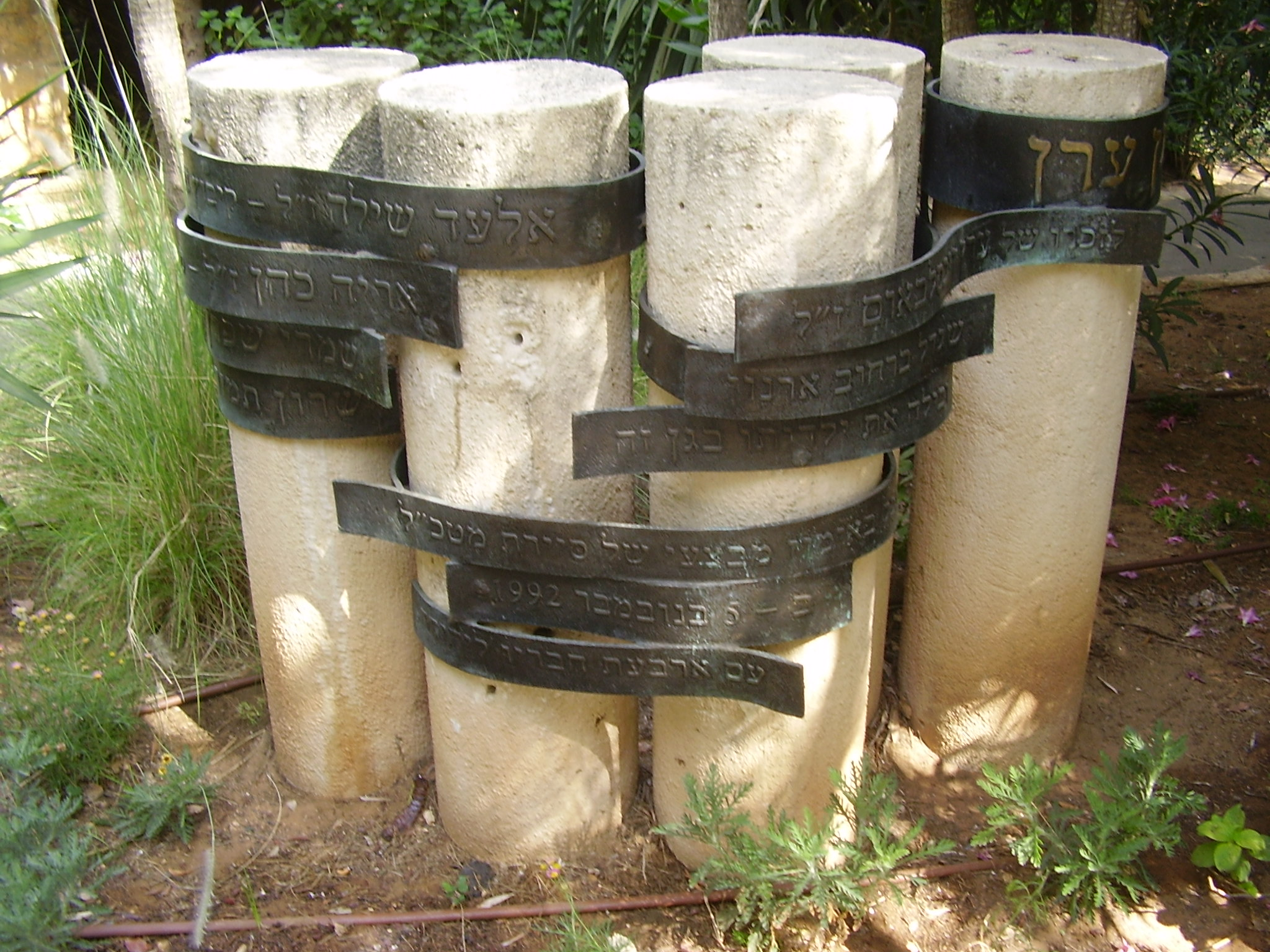 memorial to the five i.d.f soldiers who fell in tze\'elim b\' disaster on 5/11/1992